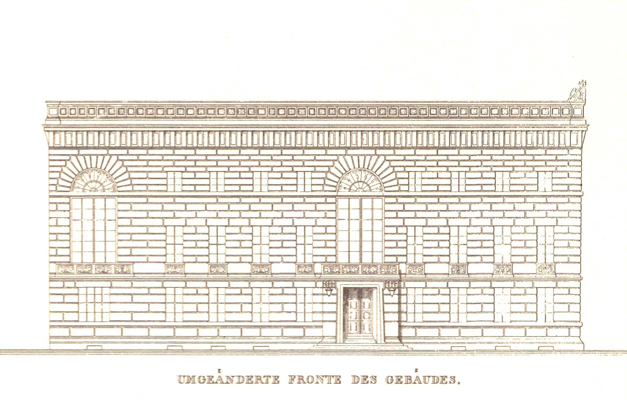 Architectural design for Palais Redern, Berlin - detail facade new